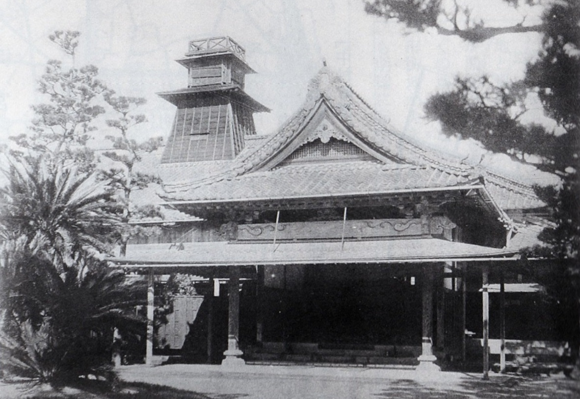 Miyazaki Prefectural Office (1874-1931)